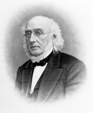 Alpheus Felch U.S. Senator from Michigan Image credited to the Library of Congress